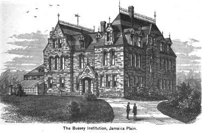 King's Handbook of Boston: Profusely Illustrated By Moses King Published by M. King, 1881